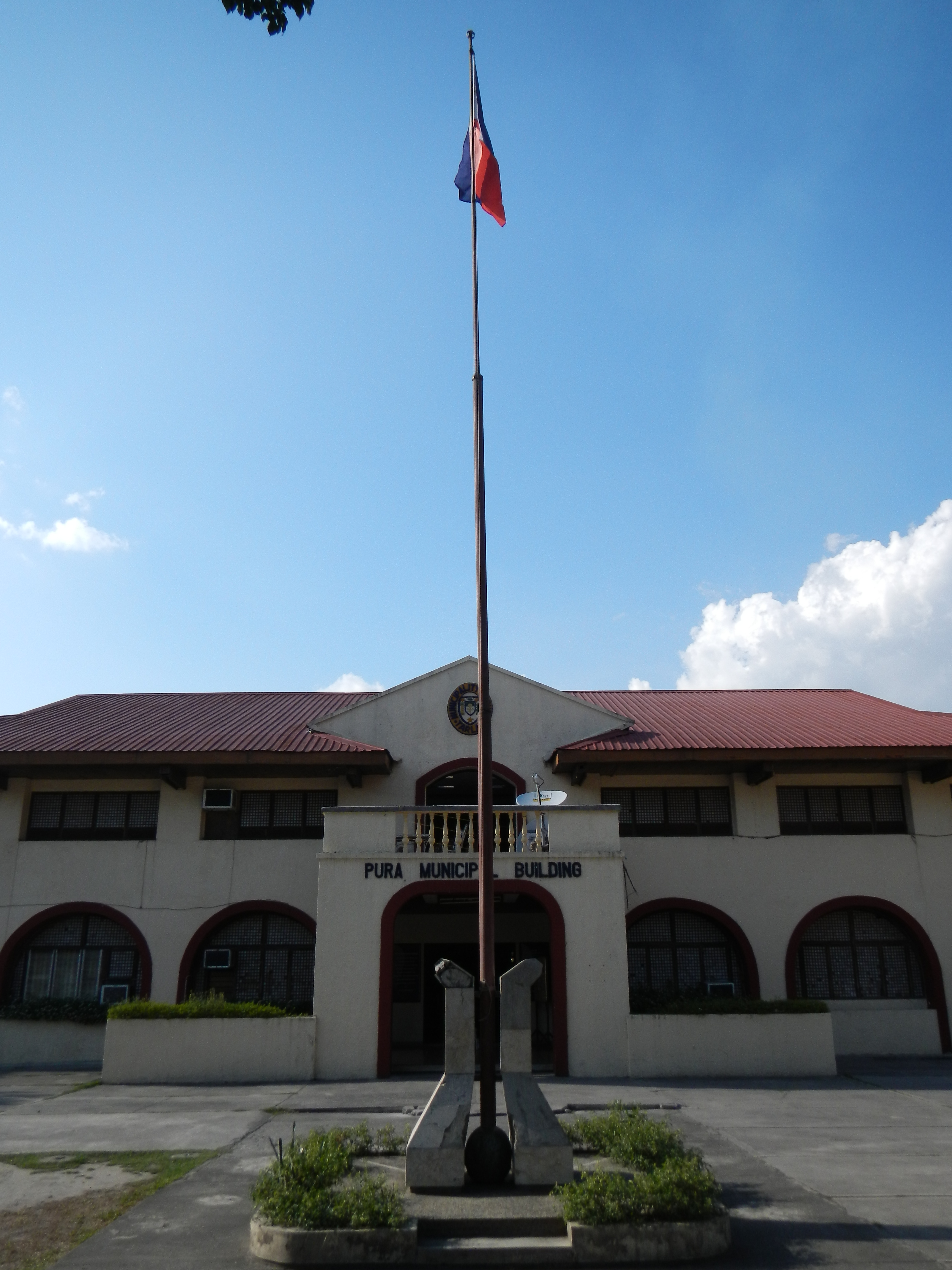 Pura, Tarlac[1] is a fourth class municipality in the province of Tarlac, Philippines. According to the 2010 census, it has a population of 22,949 people,[3] with 14,929 voters (as of Jan. 2010). Pura is located about 78 kilometres (48 mi) from the regional center San Fernando, Pampanga, 55 kilometres (34 mi) from Clark Special Economic Zone (CSEZ) (Angeles City, Pampanga), 19 kilometres (12 mi) from the provincial capital Tarlac City, and 145 kilometres (90 mi) north of Manila.New WebsitePura's topography is characterized by plain slopes, with Luisita fine sand loam and Pura clay loam soil. It is traversed by the Susubaen Creek and Baldo Creek.[2] It has an average monthly rainfall of 29.5 centimetres (11.6 in), an average temperature range of 24.2 to 31.4 °C (76 to 89 °F), and a wind speed of 7.1 knots/hour.[3] Area: 31.01 km² ZIP Code: 2312[4]Coordinates: 15°37'10"N 120°39'22"E It was during the Spanish regime when migrants coming from the Ilocos Region ( Ilocos Norte, Ilocos Sur and La Union) moved southward to look for arable lands. Read more: [5]At present, the Municipal Leadership is under the reins of Hon. Concepcion A. Zarate, M.D.